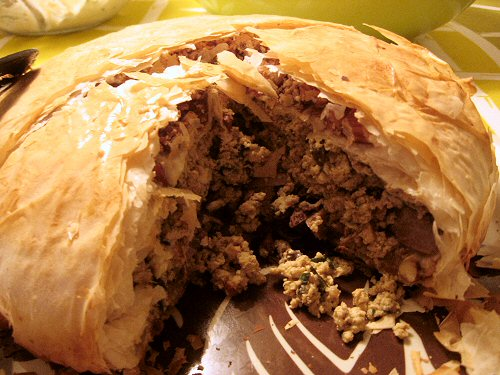 Get the full scoop